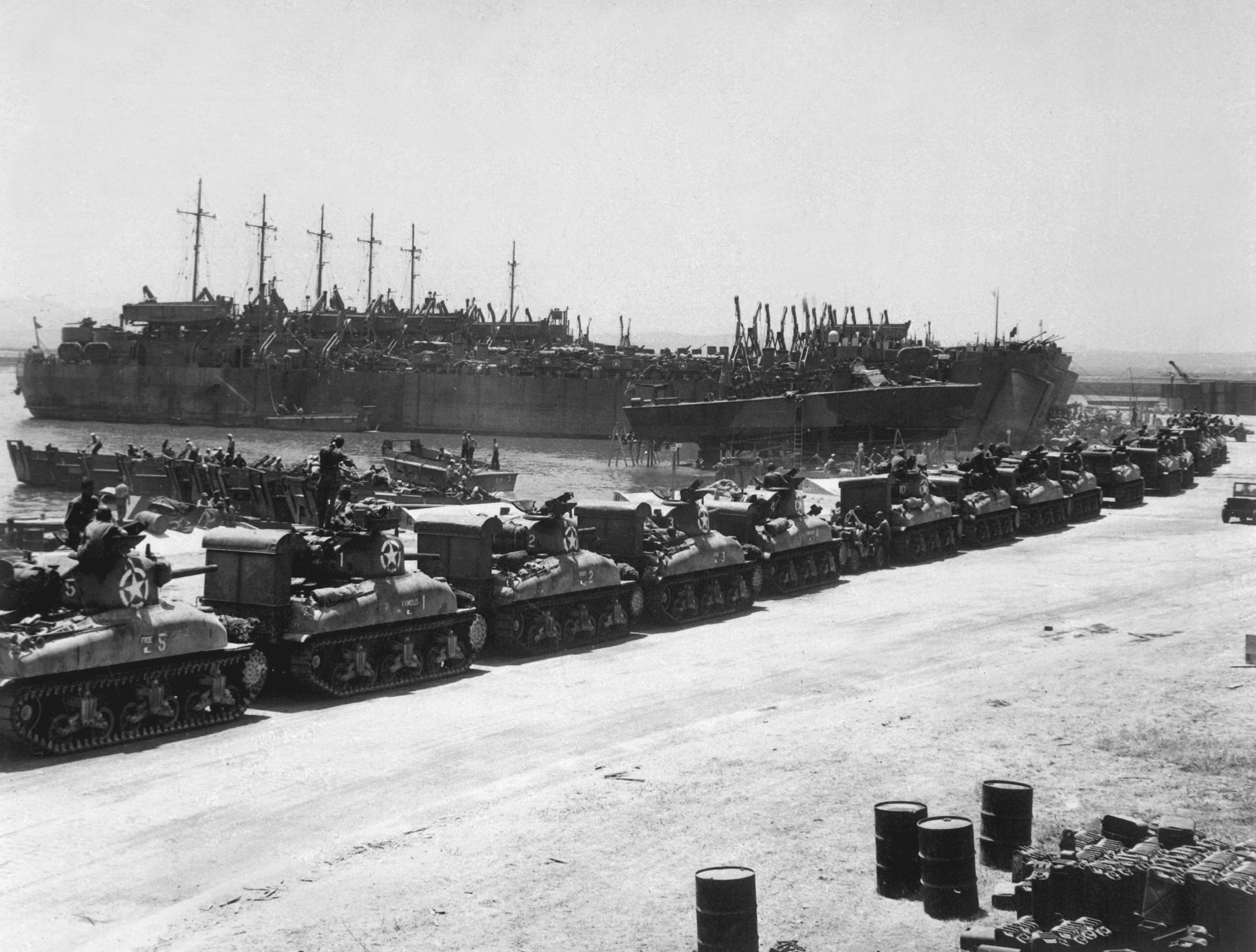 L.S.T.'s lined up and waiting for tanks to come aboard. Two days before invasion of Sicily. La Pecherie, French Naval Base. Tunisia, July 1943. (OSS) Exact Date Shot Unknown NARA FILE #: 226-FPL-2665(A) WAR & CONFLICT BOOK #: 1022